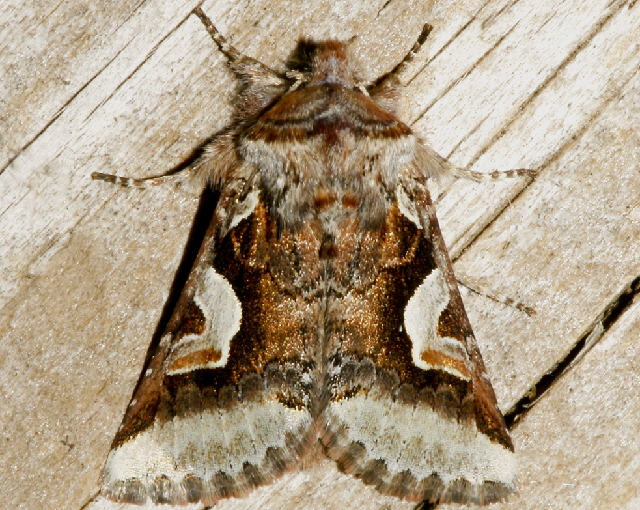 Stretchia muricina, Maclean Mill, Alberni Valley, Vancouver Island, British Columbia, Canada